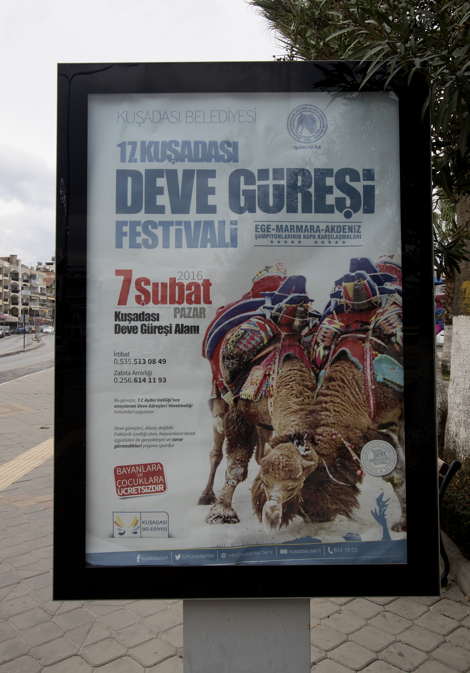 A billboard for 17th Camel Wrestling Festivity in Kuşadası - Aydın, Turkey.